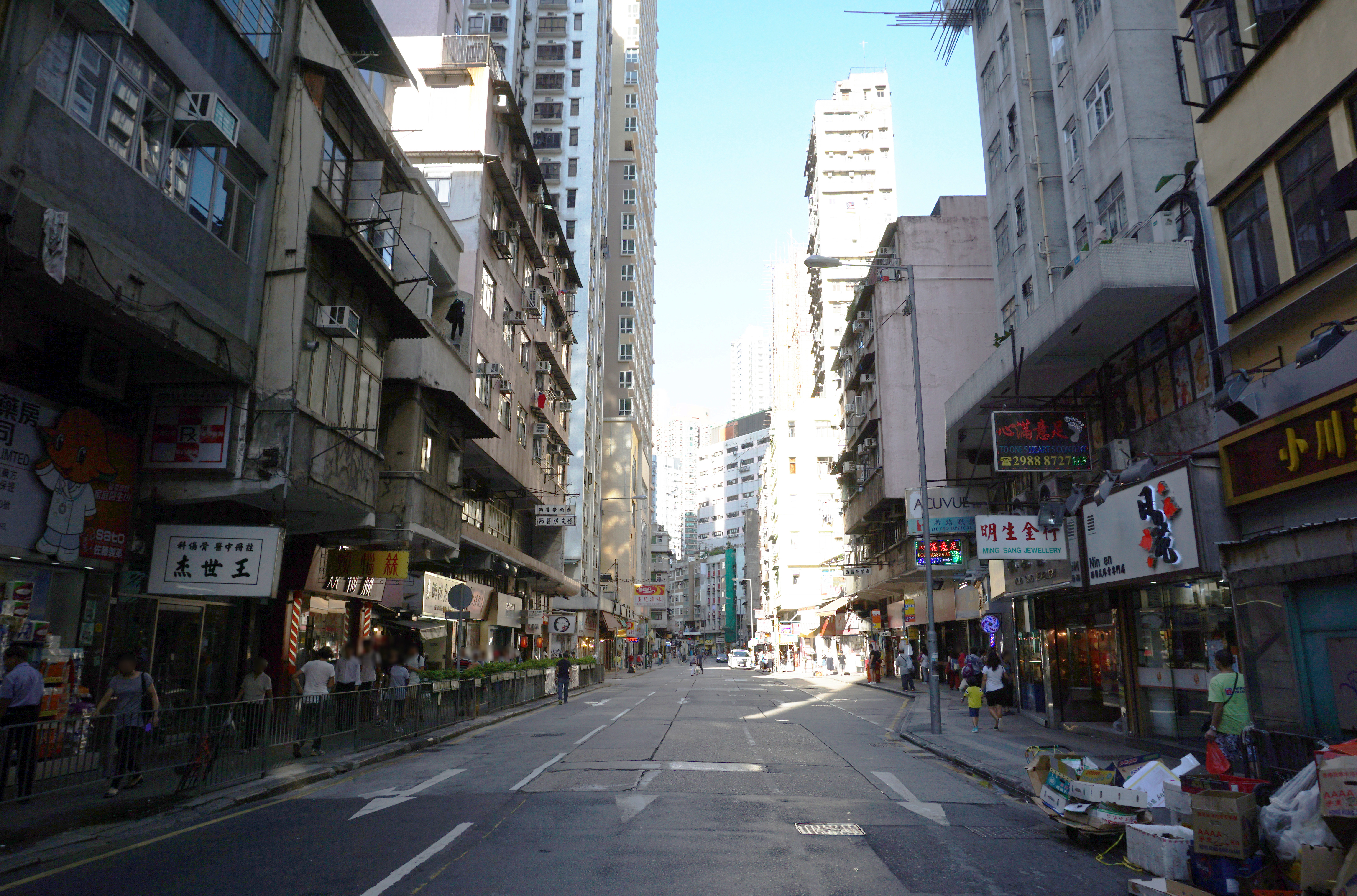 Queen's Road West in Sai Ying Pun, Hong Kong.